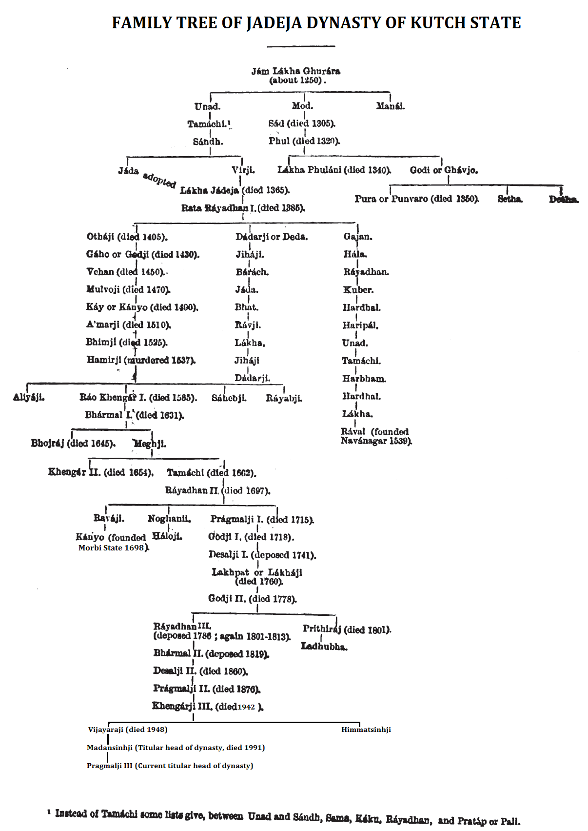 Original description:Rao's Family Tree, rulers of Cutch State. Now Kutch Gujarat, India. New description:(Family tree of Jadeja dynasty of Cutch State of British India)